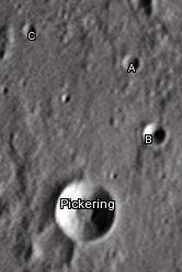 Pickering lunar crater as seen from Earth with satellite craters labeled